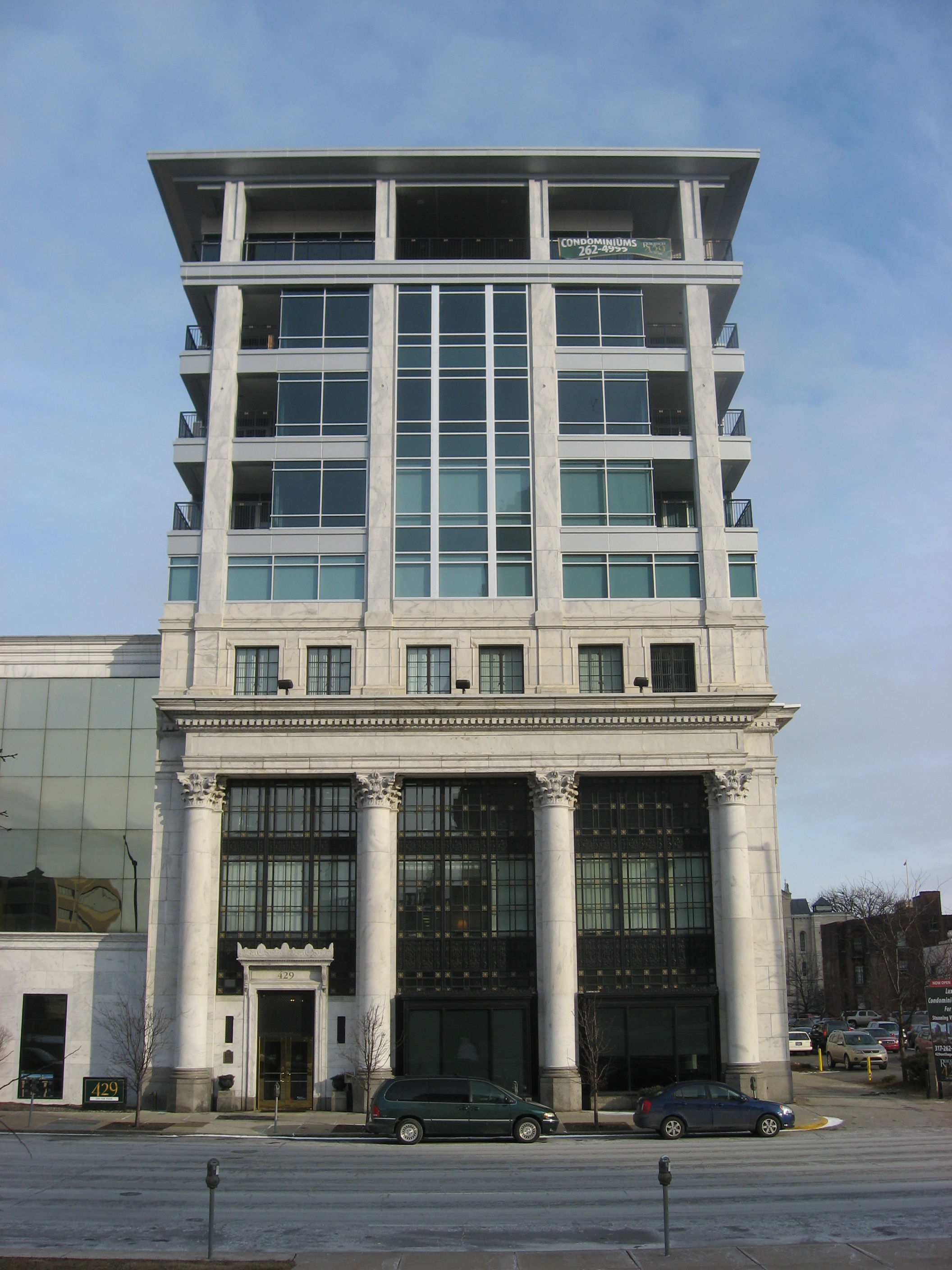 Front of the former Reserve Loan Life Insurance Company building (now a condominium complex), located at 429 N. Pennsylvania Street in Indianapolis, Indiana, United States. Built in 1925, it is listed on the National Register of Historic Places.